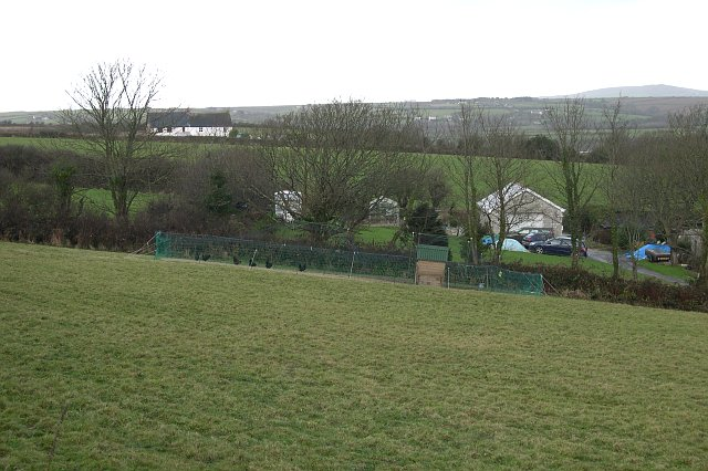 Valleyside near Gilbert's Coombe. Some housing amongst the fields.